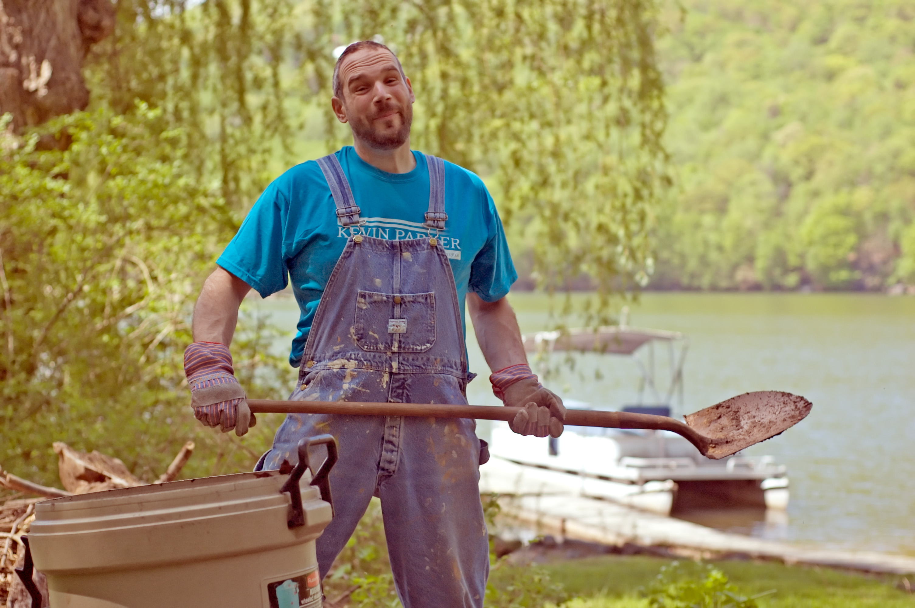 Laborer in bib overalls Digging the fire pit.